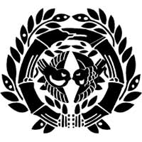 Crest of the Date clan. 伊達氏の家紋「竹に雀」